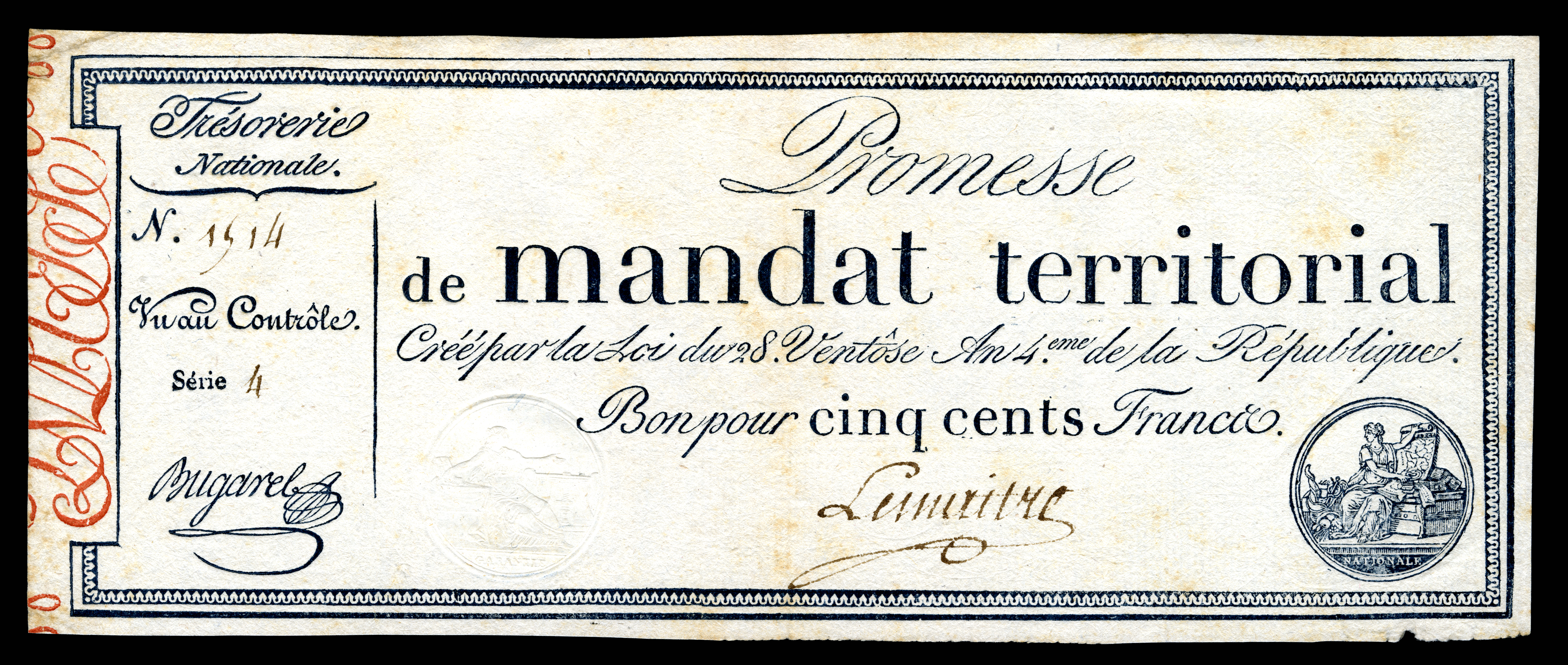 Early French paper currency part of an issue known as Promesses de Mandats Territoriaux (fiat money designed to replace the assignat) - 500 Francs, 1796 Issue (Pick ref# A86b).